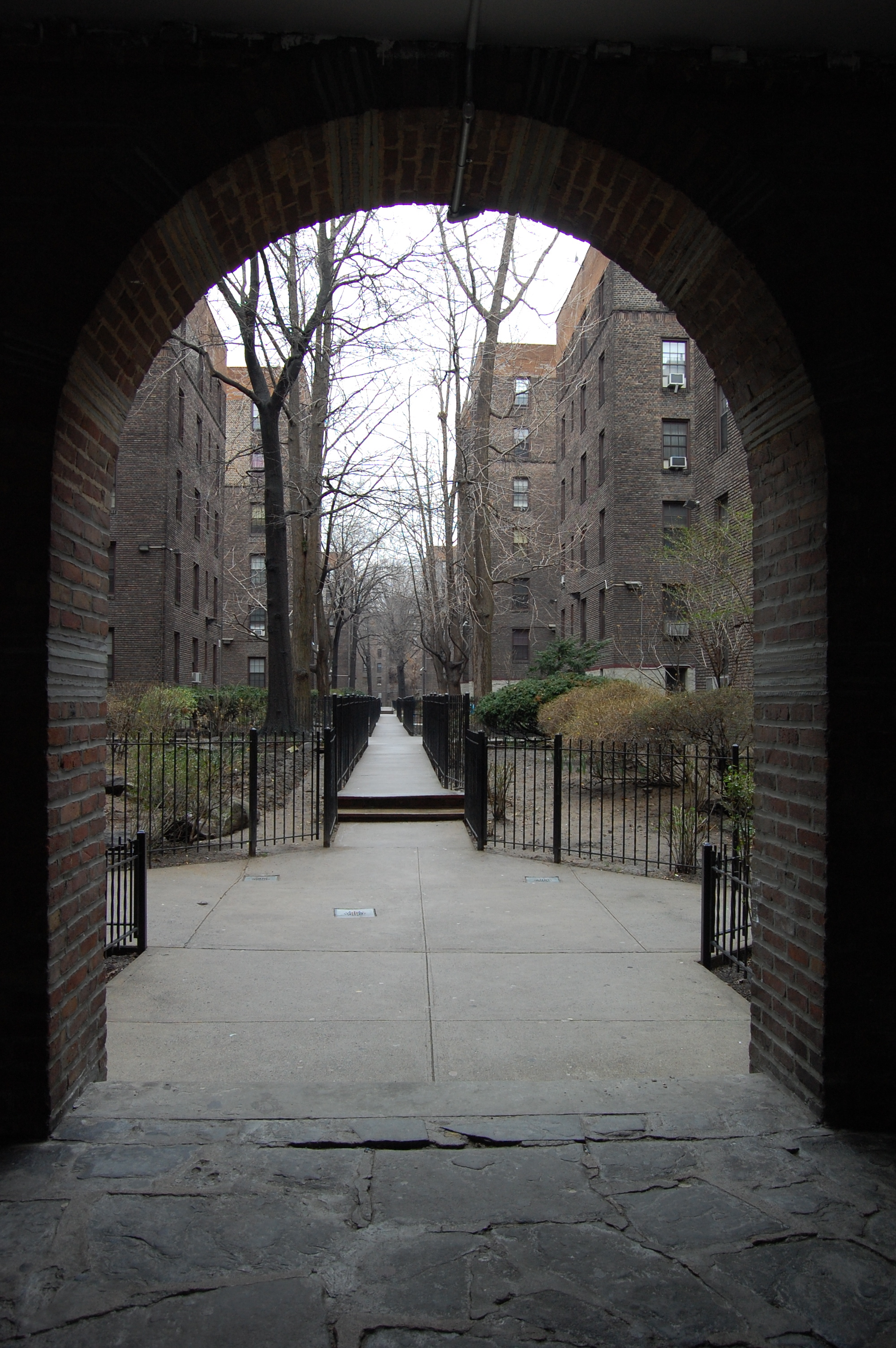 This photo is of Wikipedia Takes Manhattan location code 56, Dunbar Apartments.